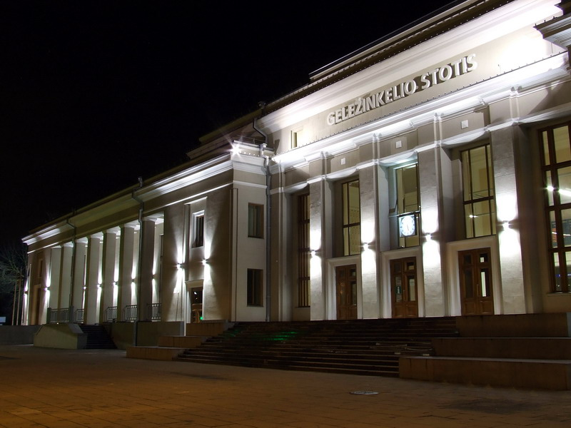 Kaunas train station, Lithuania.